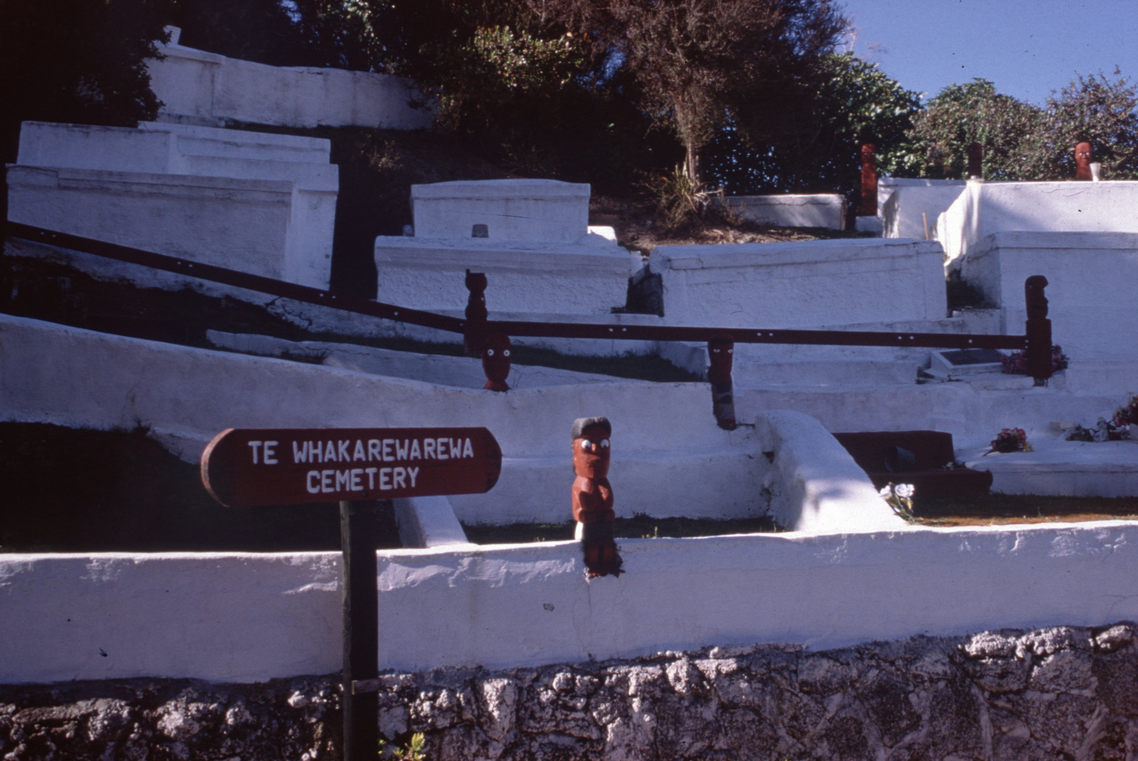 Whakarewarewa Cemetary, New Zealand.